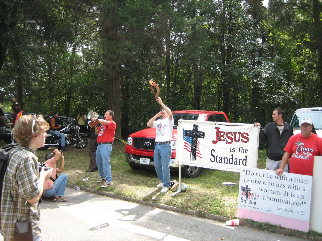 Religious protesters of gay pride event, 2006. North Carolina